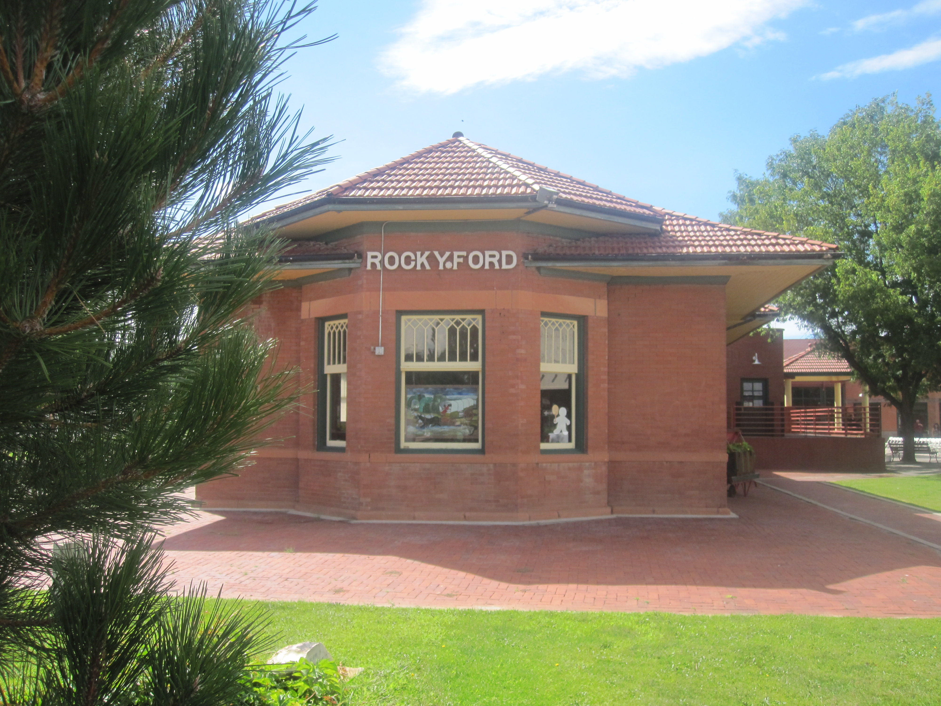 I took photo with Canon camera in Rocky Ford, CO.